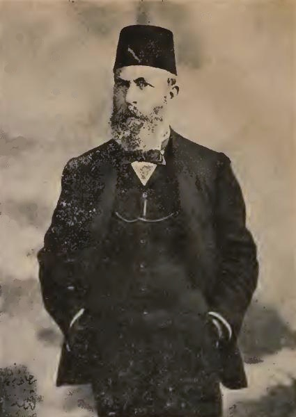 Recaizade Mahmud Ekrem Bey (1847-1914), taken from an official publication of Ottoman Government Biographies